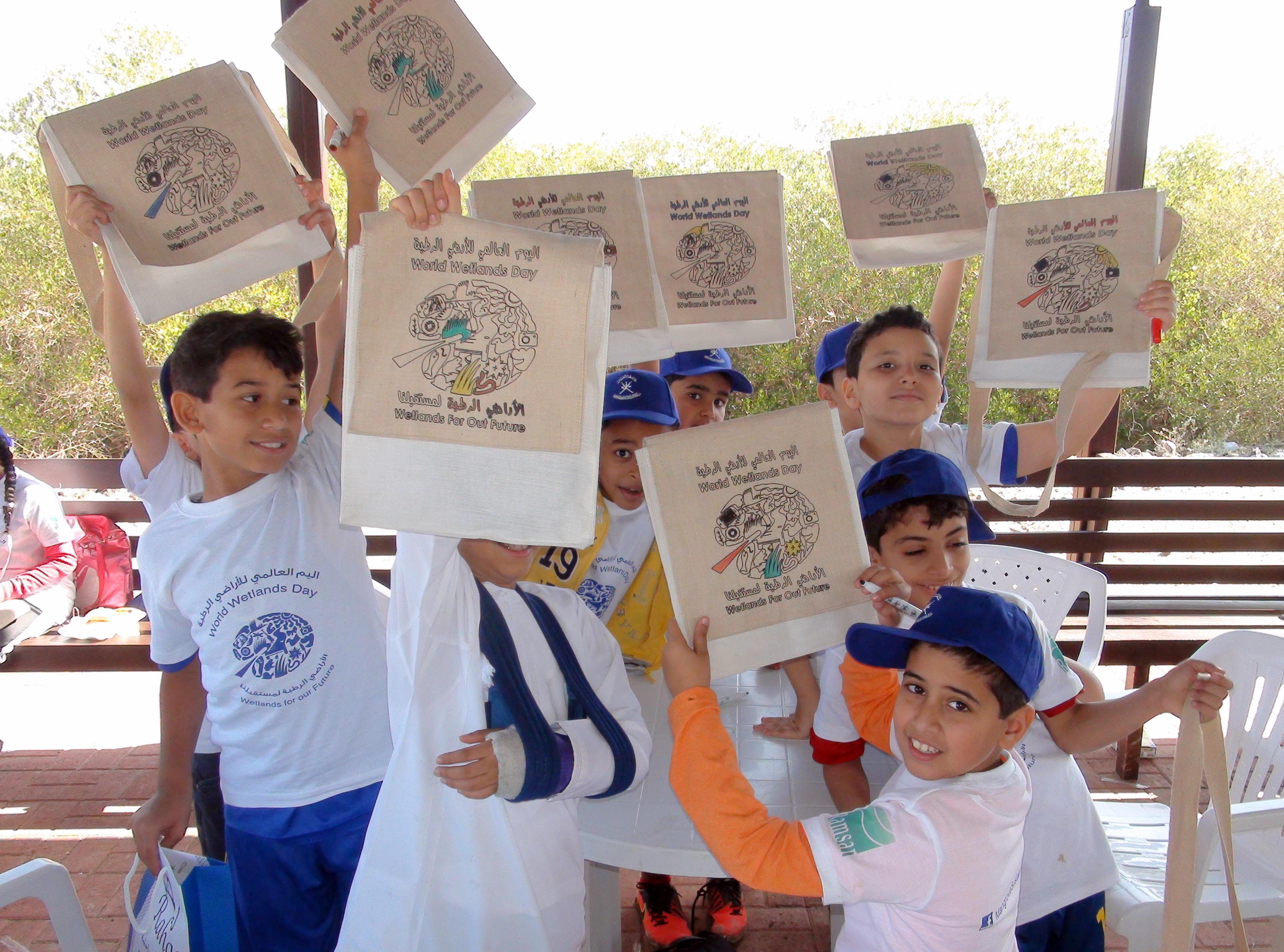 World Wetlands Day in Pakistan